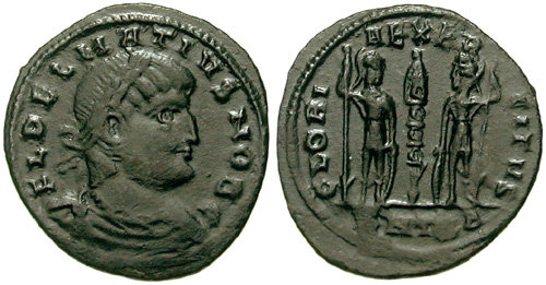 DELMATIUS, Caesar. 335-337 AD. Æ Reduced follis (17mm, 1.55 gm). Thessalonica mint. Struck 336-337 AD. FL DELMATIVS NOB C, laureate, draped, and cuirassed bust right GLORI-A EXER-CITVS, two soldiers, each holding reversed spear and shield, standing either side of standard; SMTSB. RIC VII 228. Nice VF, black patina, softly struck.